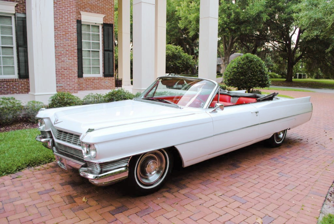 This is a picture of a 1964 Cadillac Deville convertible.